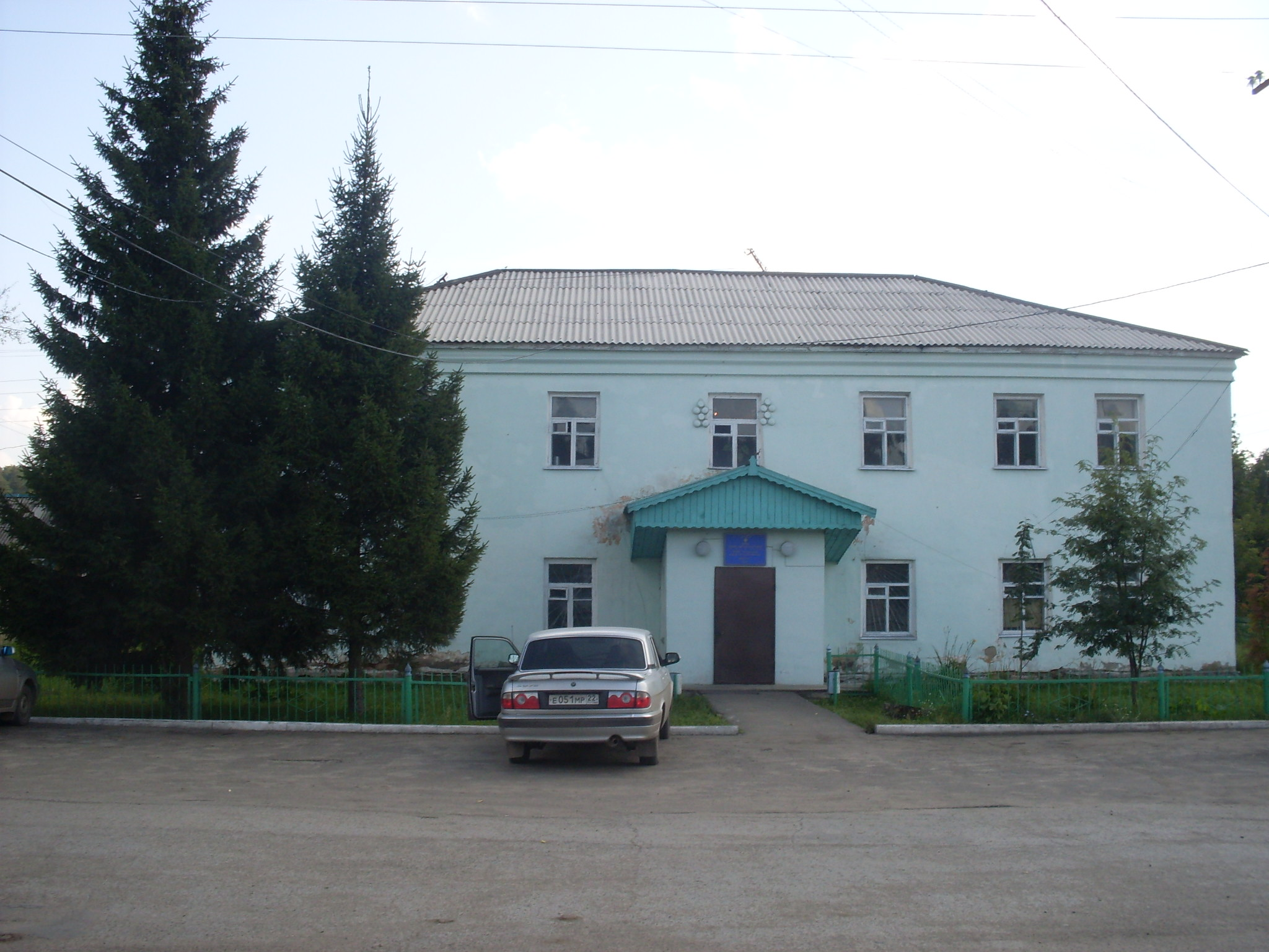 Geological companiy in Borzovya Zaimka